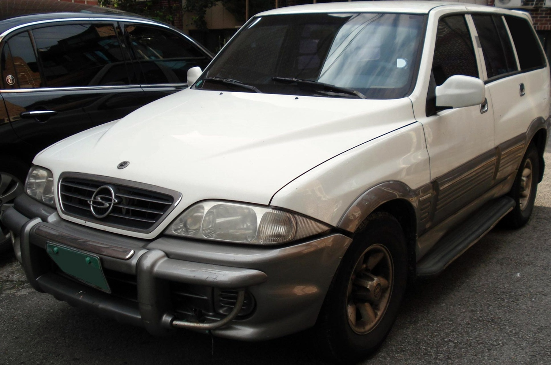 SsangYong New Musso